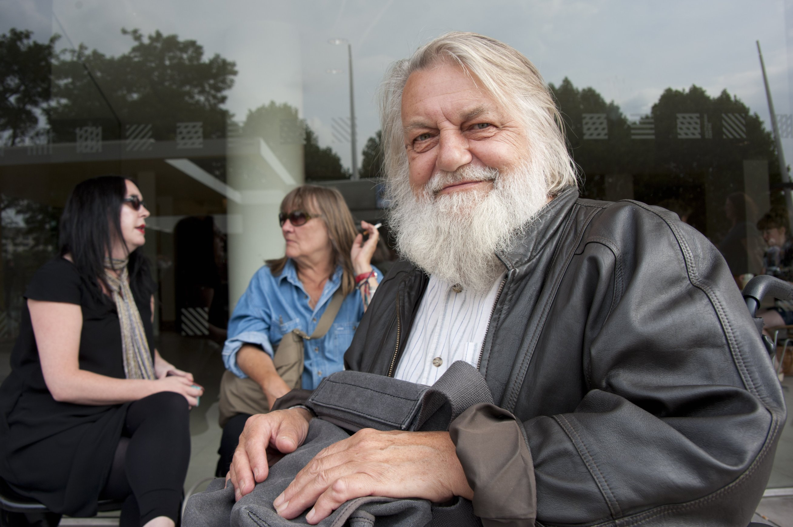 Portraits